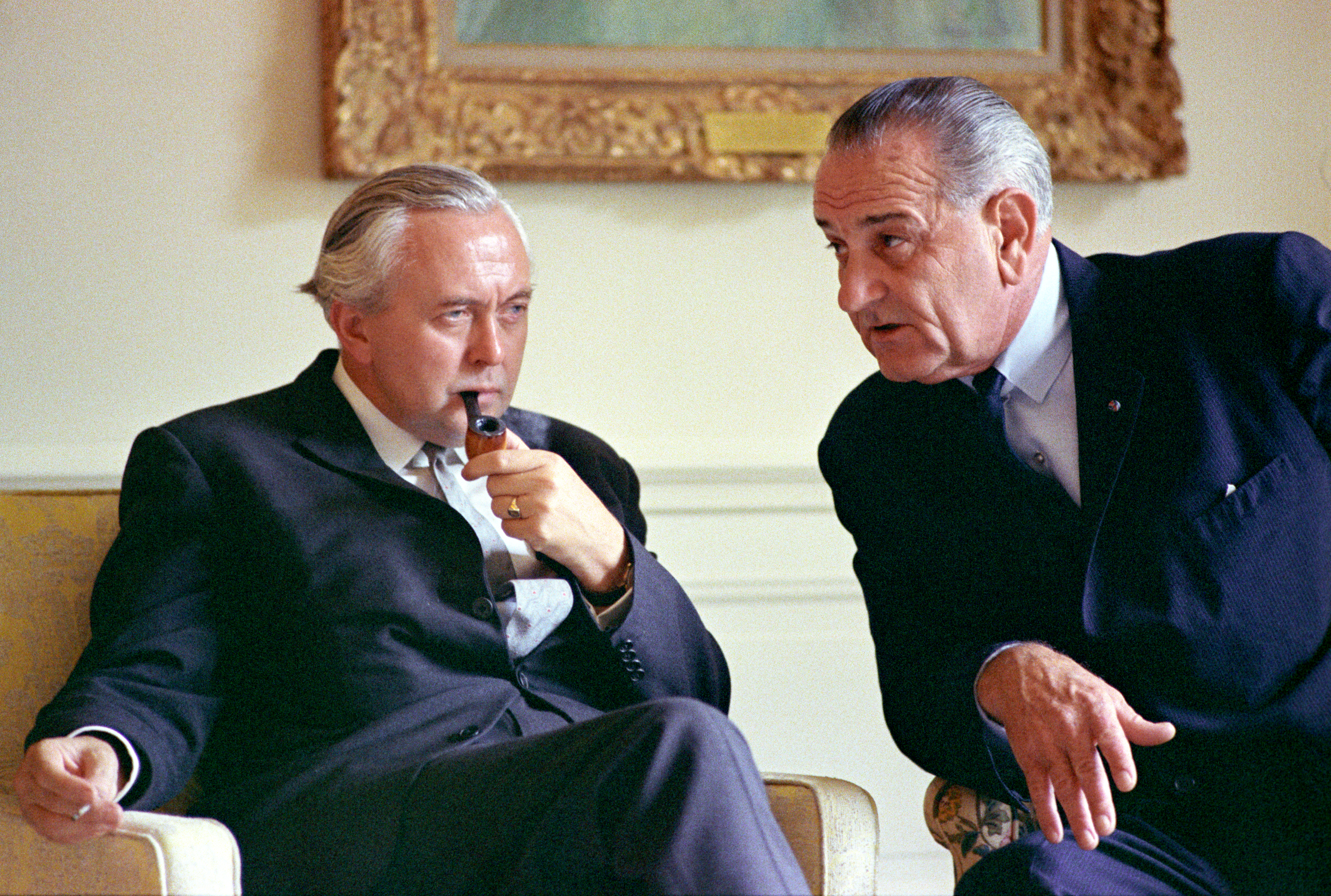 Serial Number (Please Retain for Reference): C2537-5 Date: 07/29/1966 Credit: LBJ Library photo by Yoichi Okamoto Event: Visit of British Prime Minister Harold Wilson Description: President Lyndon B. Johnson meets with Prime Minister Harold Wilson Location: White House interior, Washington, DC Collection: White House Photo Office Rights: Public Domain: This image is in the public domain and may be used free of charge without permissions or fees. Website